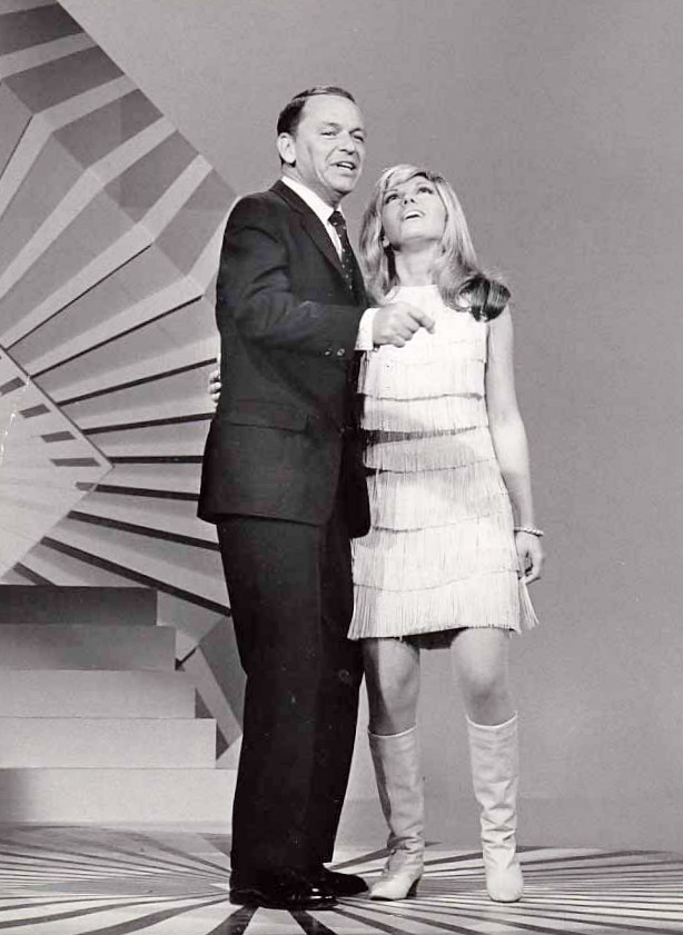 Photo of Frank and Nancy Sinatra performing on the 1966 television special "Frank Sinatra: A Man and His Music Part II". The program was originally broadcast in 1966 and re-broadcast in 1967.